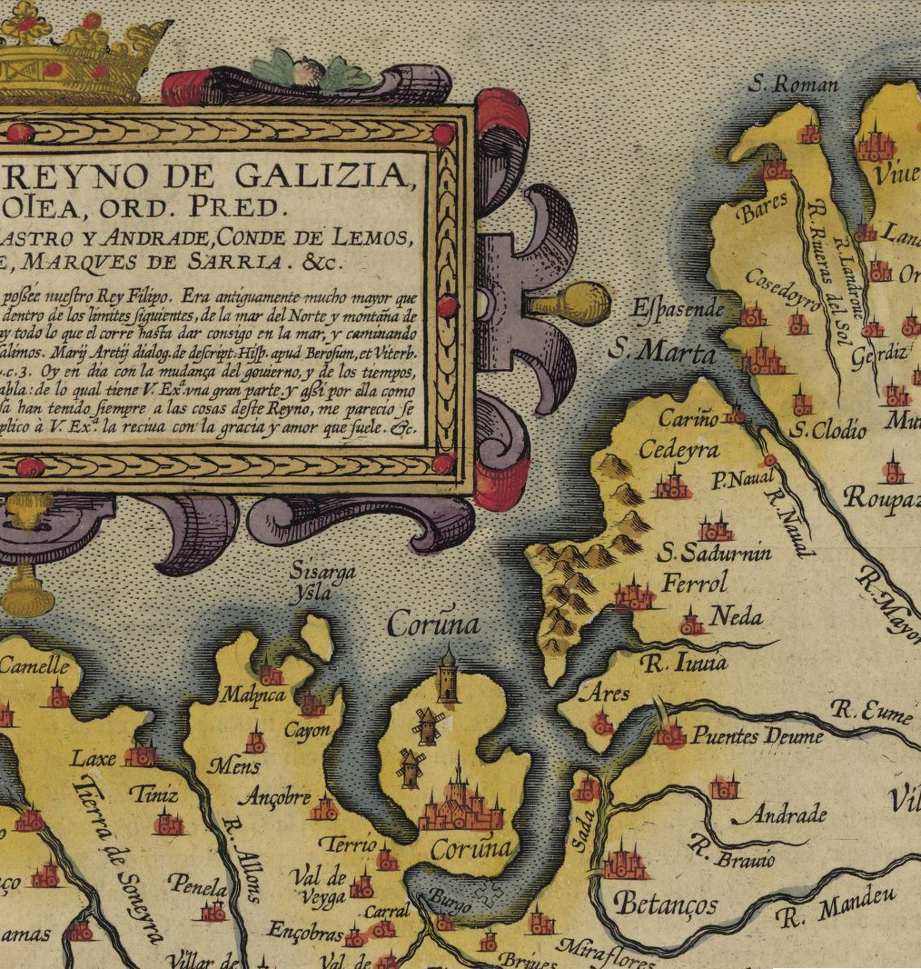 Just a part of: Transcription: DESCRIPCION DEL REYNO DE GALIZIA, AVTH.F.FER. OIEA ORD PRED. A DON FERNANDEZ DE CASTRO Y ANDRADE,CONDE DE LEMOS, DE VILLALVA Y ANDRADE, MARQVES DE SARRIA. &c. Galizia es vno de los muchos Reynos de España,que poßée nuestro Rey Filipo. Era antiguamente mucho mayor que ahora, comprendia todas las tierras y prouinçias que ay dentro los limites siguientes,de la mar del Norte y montaña de Iunto à Vizcaya, hasta las fuentes del gran Rio Duetro,y de ay todo loque el corre hasta dar consigo en la mar,y caminando por las orillas della hasta boluer al mismo punto de dunde salimos. Marij Aretij dialog.de descript.Hisp apud Berosum,et Viterb. in inquirid.et Florian.de Campo Lib.3.c.40,et42.et Lib.4.c.3. Oy en dia con la mudança del gouierno,y de los tiempos, ha quedado con este nombre solo lo que parece en esta tabla:de lo qual tiene V.Exª.vna gran parte.y aßí por ella como por la mucha afficion que todos los Principes de su casa han tenido siempre a las cosas deste Reyno, me parecio se le deuia de Iusticia la ymagen y descripcion del.Supplicio à V.Exª.la reciua con la gracia y amor que suele.&c. Abunda de carnes este Reyno de todo genere de caça,de mucho buen pescado, aßi de mar como de rios,de que se prouée la mayor parte de España.Tiene grande abundancia de aguas frias y calientes que llaman baños,mucho vino del mejor que se halla en toda Europa,particularmente el de Orense,y Riuadauia,del qual se prouen muchas prouincias del Reyno,y de fuera del.Tiene muchas y muy buenas frutas,limas y naranjas de todo genero,Seda y mucho lino,muchos minerales de Oro y pla: ta, hierro &c. Y algunas canteras de marmol. Su temperamento ni frio ni caliente. IOANNES BAPTISTA VRINTS, ÆMVLVS STUDII GEOGRAPHIÆ D.ABRAHAMI ORTELII, P.M.COSMOG.REGII EXCUDIT. HOC MYSTERIVM FIR: MITER PROFITEMVR.